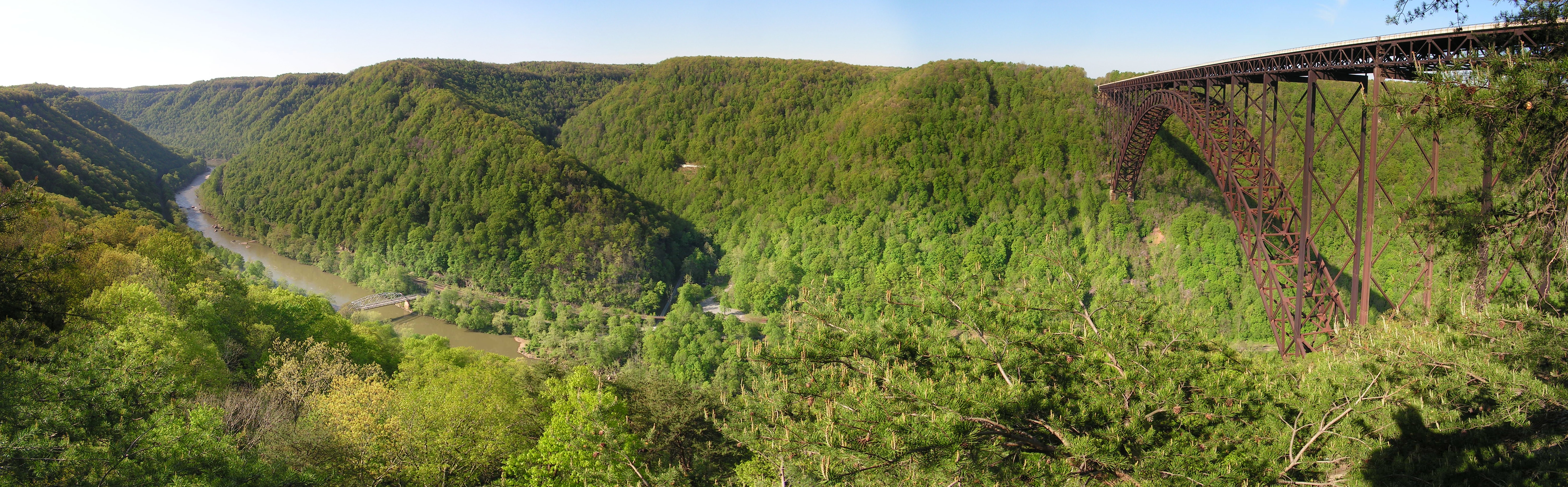 Panoramic view from the National Park Service's New River Gorge Bridge Overlook, opposite from Fayetteville, WV, USA. On the left, the New River is visible as it flows through its deep gorge towards the viewer and continuing to the right. The sight of the river is blocked by trees in the middle. On the right, the New River Gorge Brige can be seen as it towers above the valley. The panorama consists of ten components: five forming a top row, and five on the bottom. It was assembled with Hugin 0.5 using Autopano-SIFT and nona as the stiching engine. The resulting TIFF was edited to correct two blending errors. The final file was saved to Progressive JPEG with a 95% quality setting in Irfanview.